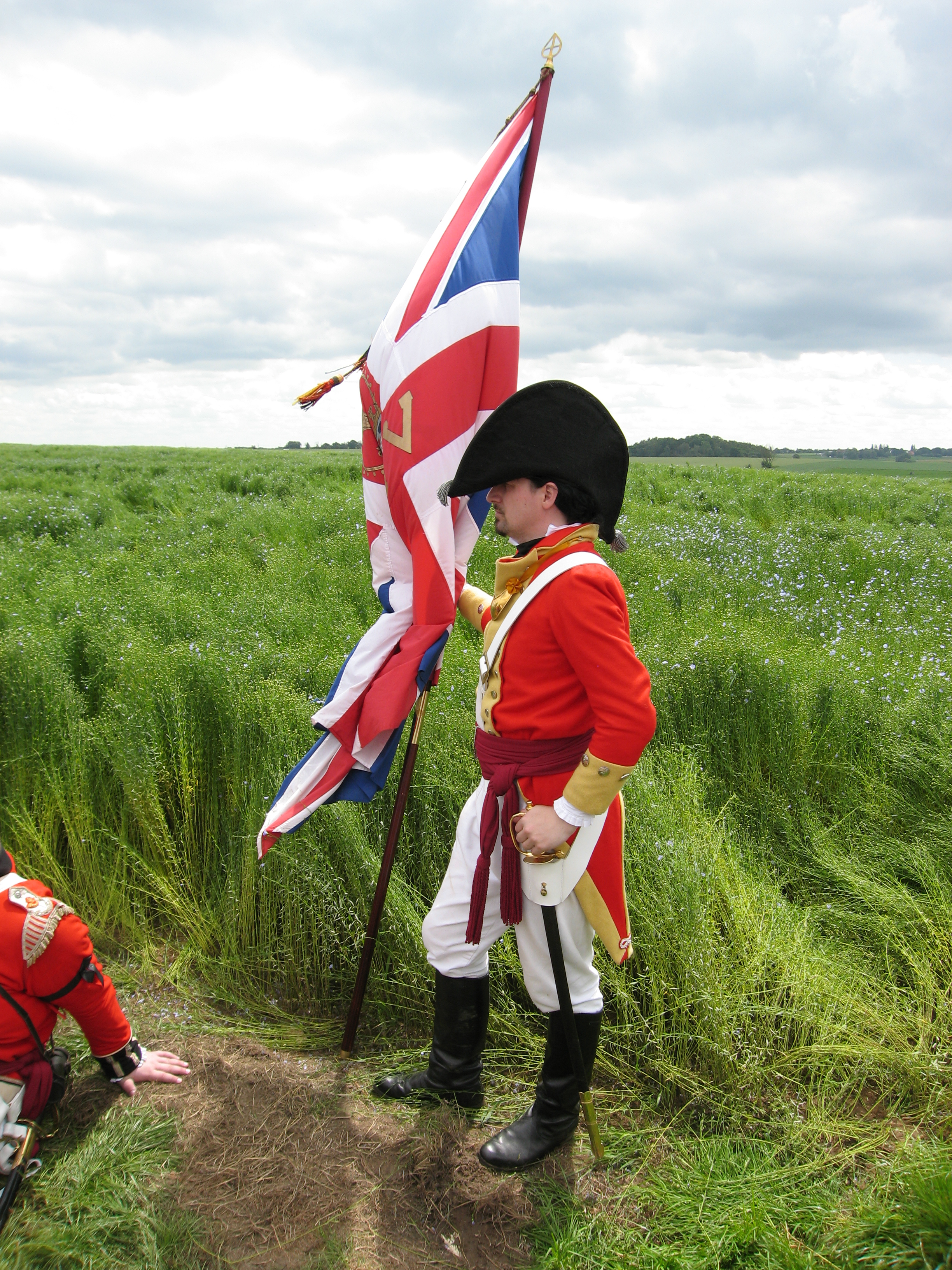 the Battle of Waterloo - Historical reenactment / 1815 - "Living History 2007"